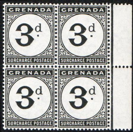 Grenada 1906 3 pence postage due stamps unused in marginal block of four.